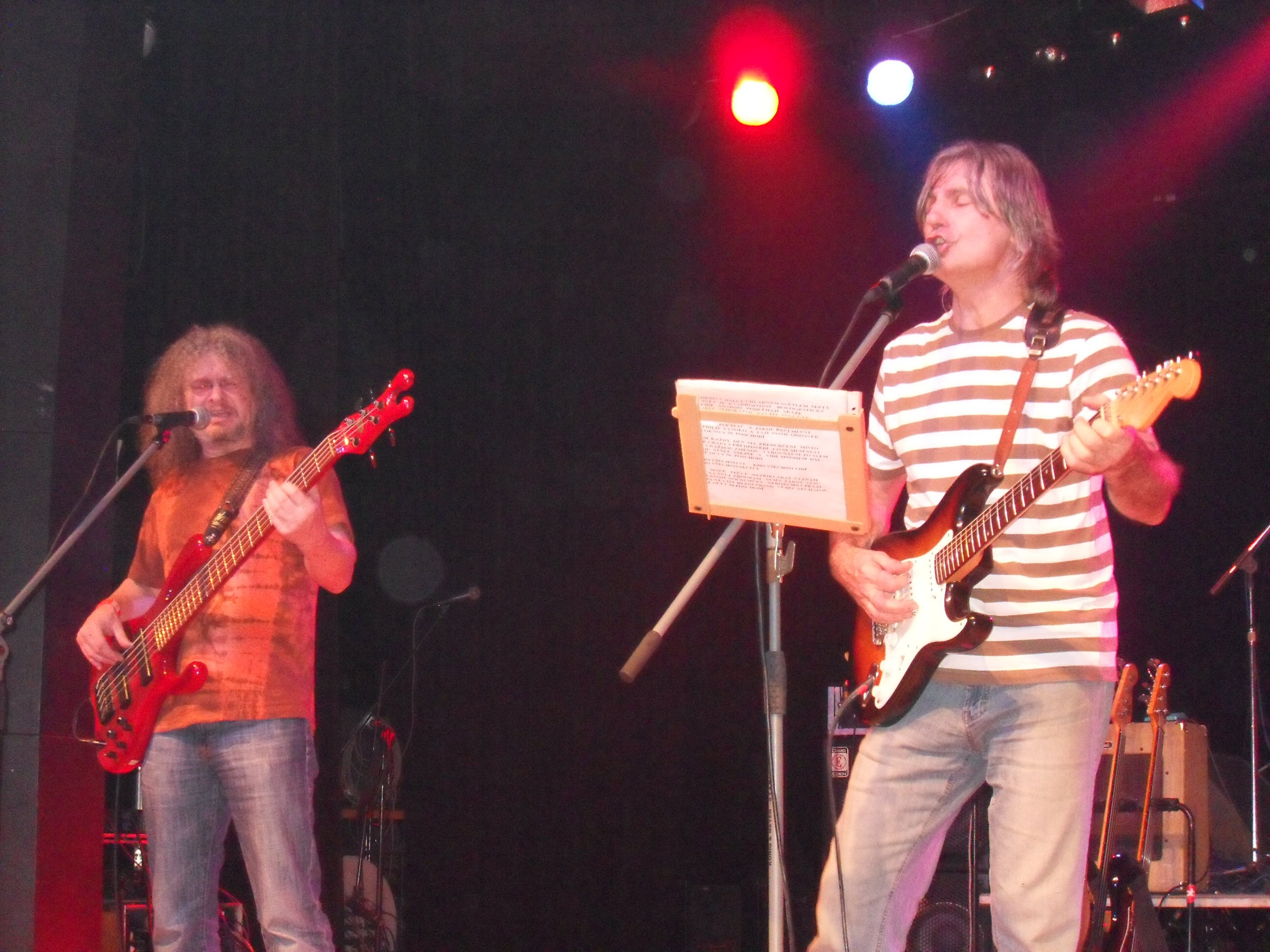 František "Goliš" Drápal, bass guitarist a backing vocalist, with Pavel Váně, guitarist and vocalist of Czech band Bronz, Brno, Czech Republic